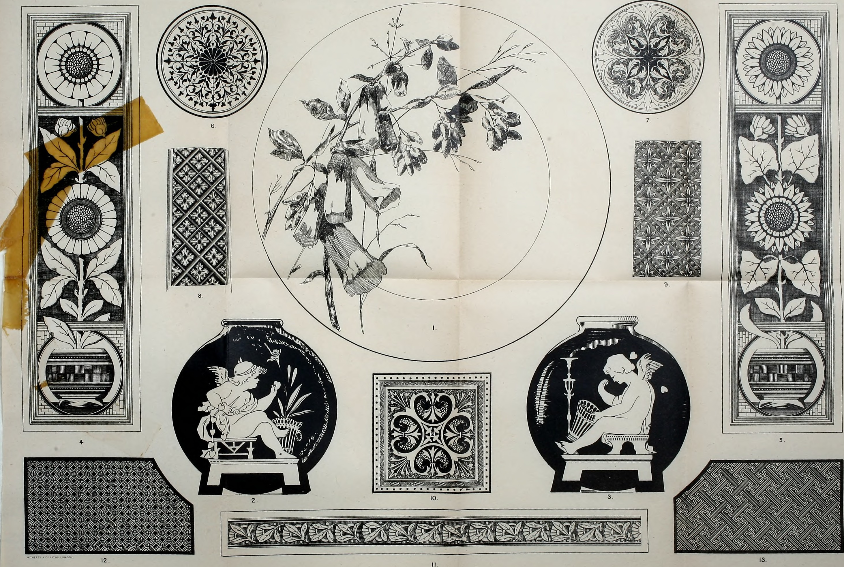 Title: Amateur work, illustrated Year: 1881 (1880s) Authors: Subjects: Industrial arts Handicraft Publisher: London, New York : Ward, Lock & Co. Text Appearing Before Image: PRESENTED WITH PART II. OF AMIflfll WflM, 11,11 Sf litIB, Text Appearing After Image: DESCRIPTION OP DESIGNS ; 1.—Design for a Dessert Plate. 2 and 3.-Solon Pilgrim Bottles (Exhibited at tbe Paris Exposition of 1878). 4 and 5—Designs for Panels in Carved Work, or for Tiles anrrounding Fire Grate. 6 and 7—Designs for Centres, in Colour or Relief.8 and 9.—Hints for Borders or Diapered Work, based on Sculptured Woik in Chartres Cathedral. 10.—Design for Tile, suitable for insertion iu Wall Brackets, etc. 11.—Border for Carved Work or Colour.12 and 13.—Designs for Diaper Work, or the Ornamentation of Surfaces in imitation of Japanese Decorative Work DESIGNS FOR DECORATIVE WORK OF VARIOUS KINDS IN PAINTING ON CARVING IN WOOD, AND ENRICHMENT OF SURFACES.